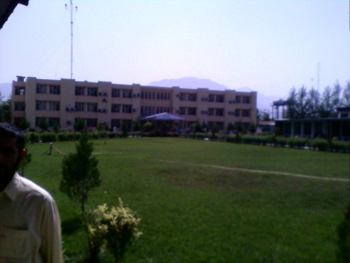 This is inside view of American University of Afghanistan.